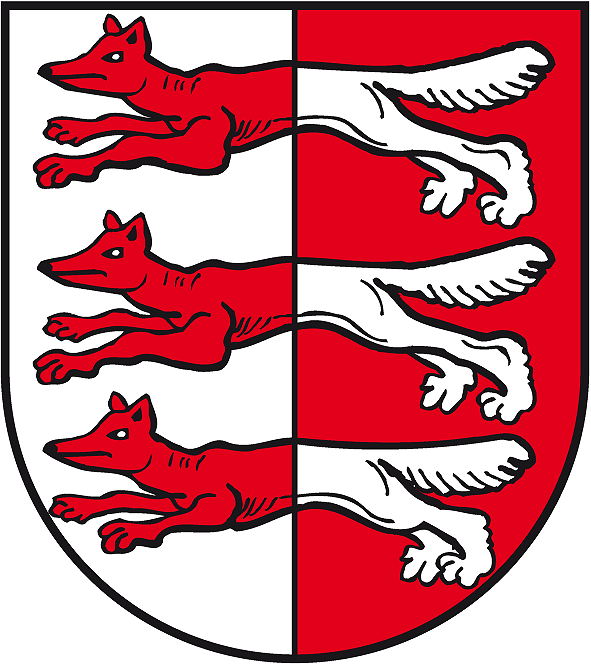 Coat of arms of Cochstedt, Part of Hecklingen